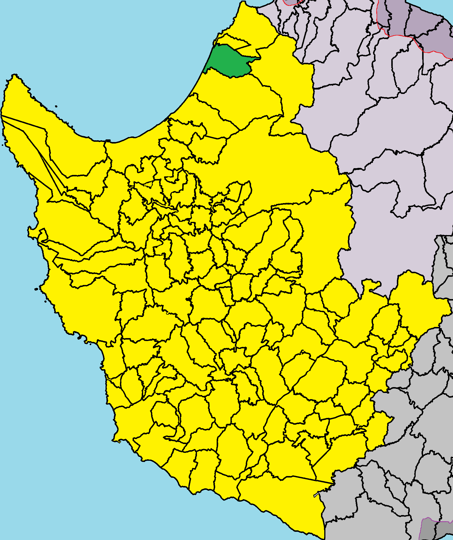 Ayia Marina Chrysochous in Paphos District.